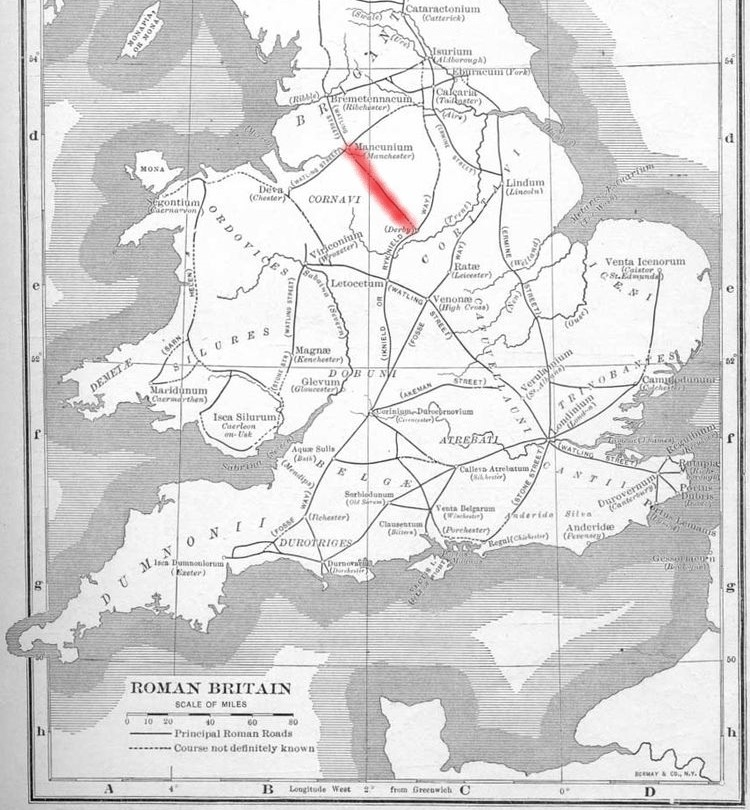 Derived from :Image:Romanbritain.jpg. The Street (Derbyshire)